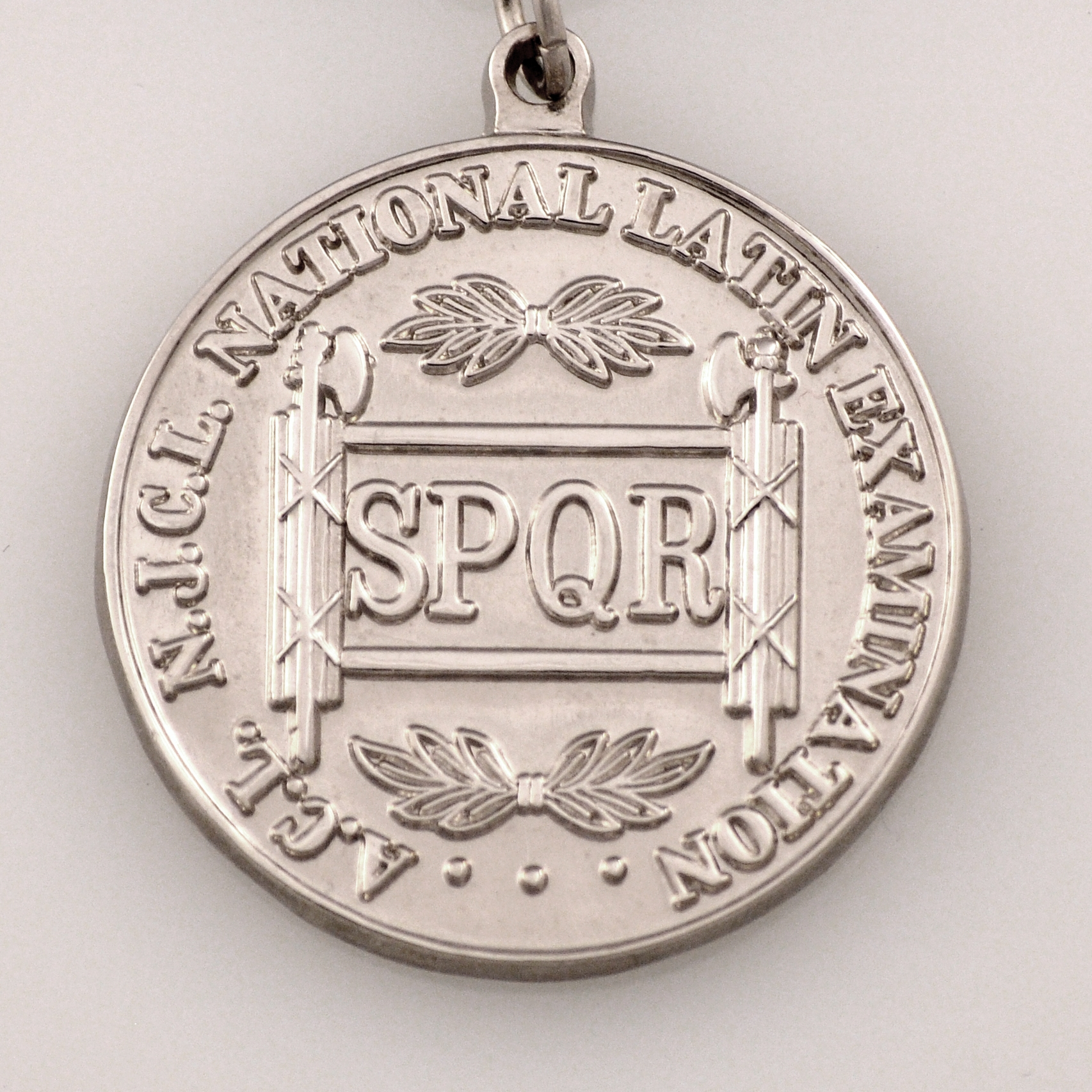 This is an image of the National Latin Exam silver medal.